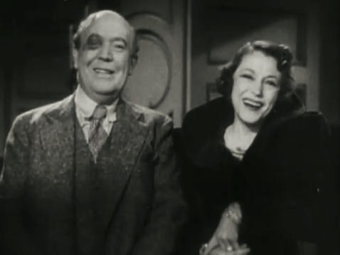 Guy Kibbee & Alice Brady in Mama Steps Out - trailer (cropped screenshot)